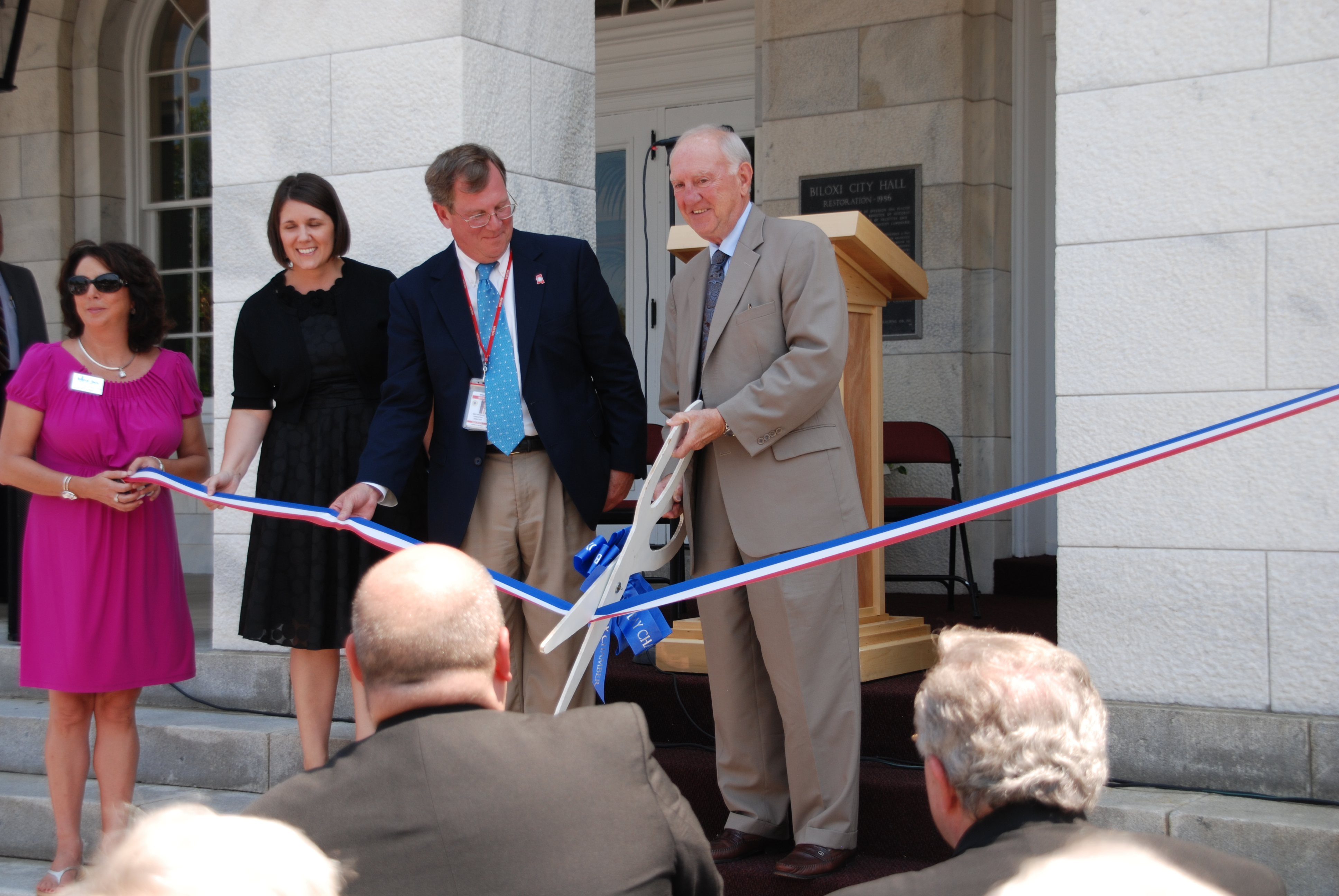 Biloxi, MS, August 24, 2010 -- Mayor A.J. Holloway cuts the ribbon at the ceremony for the newly renovated Biloxi City Hall. The historic building was heavily damaged by Hurricane Katrina. Photo by Tim Burkitt / FEMA photo.